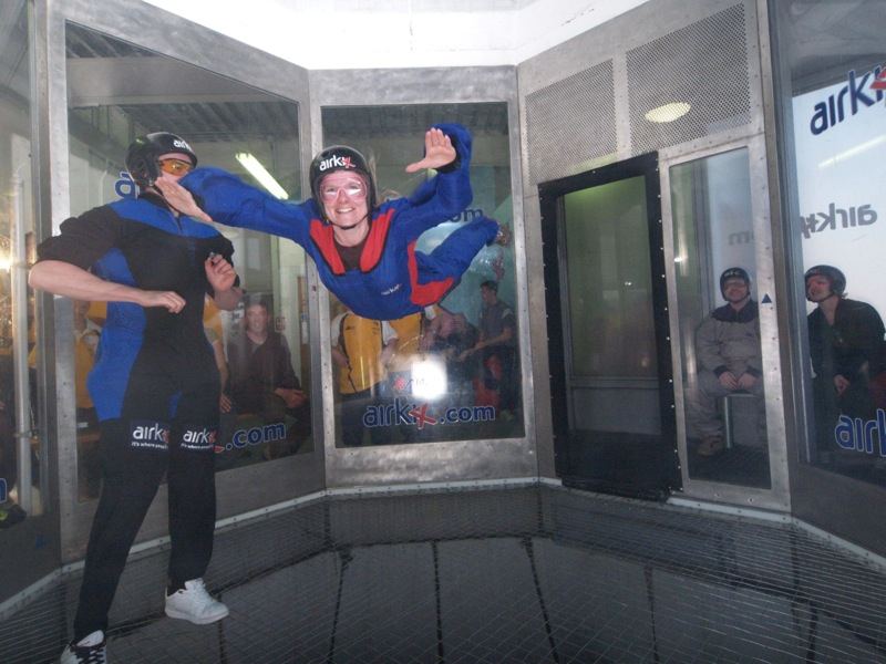 Bodyflying